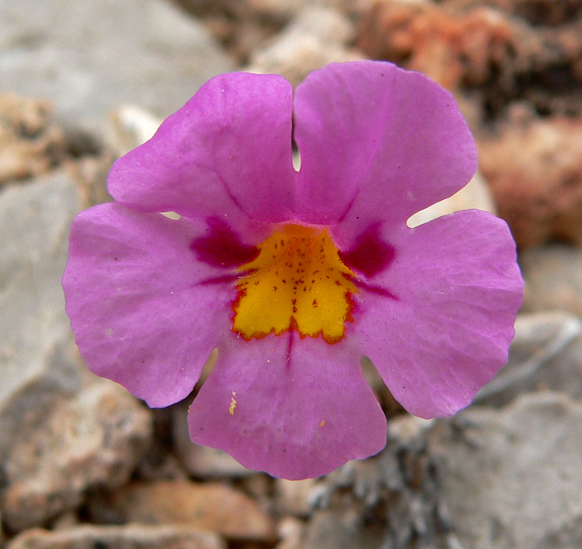 Photo of Mimulus bigelovii in the desert west of Las Vegas, Nevada (just off the end of Tropicana Avenue)